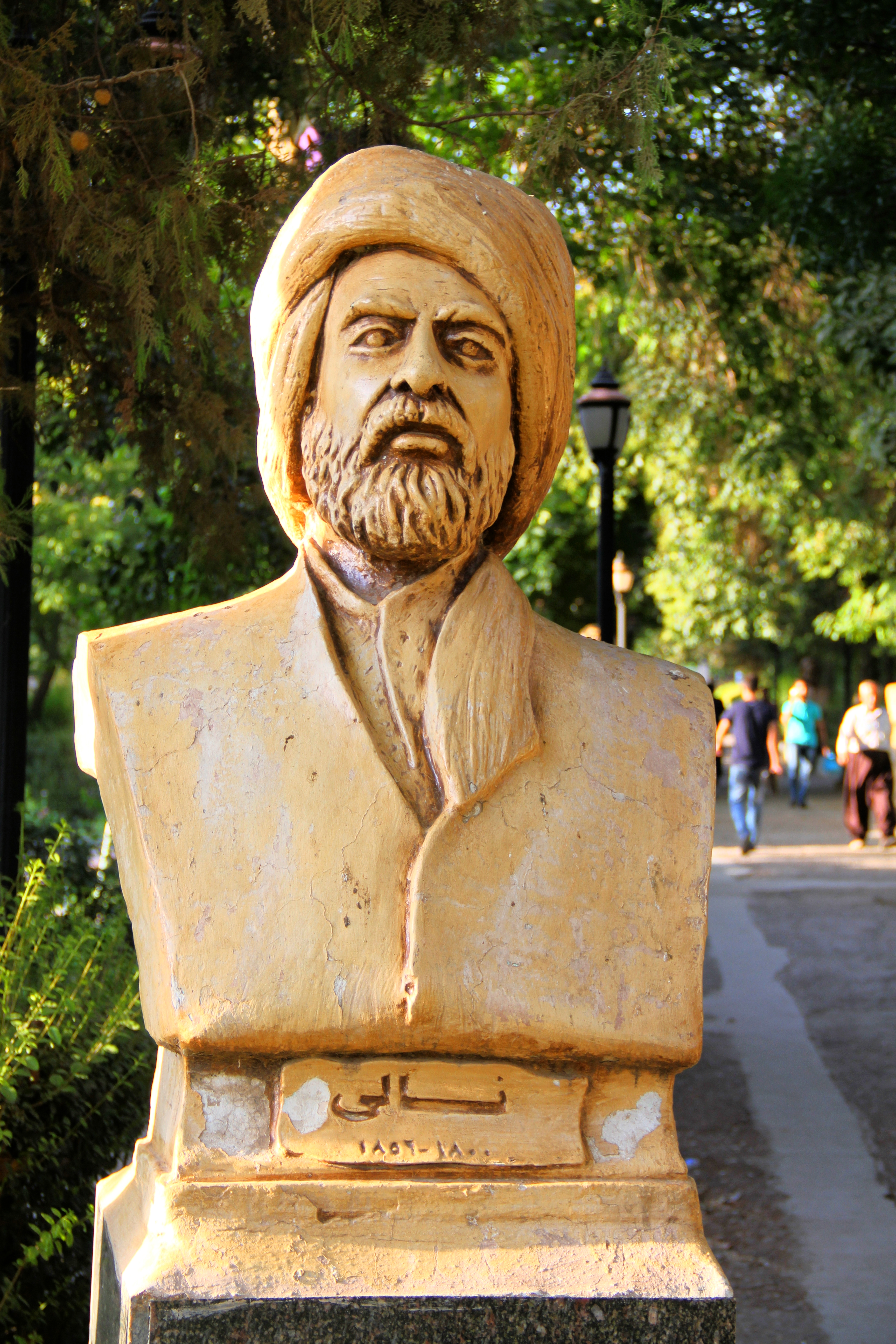 Statue of Kurdish poet Nali in general garden of Sulaymaniyah, Kurdistan, Iraqکوردی: پەیکەری نالی شاعیر لە باخی گشتی سلێمانی، کوردستان، عێراق